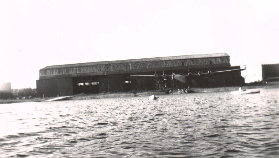 Latécoère 631 (unidentified number) - Wharf of Biscarrosse Lake